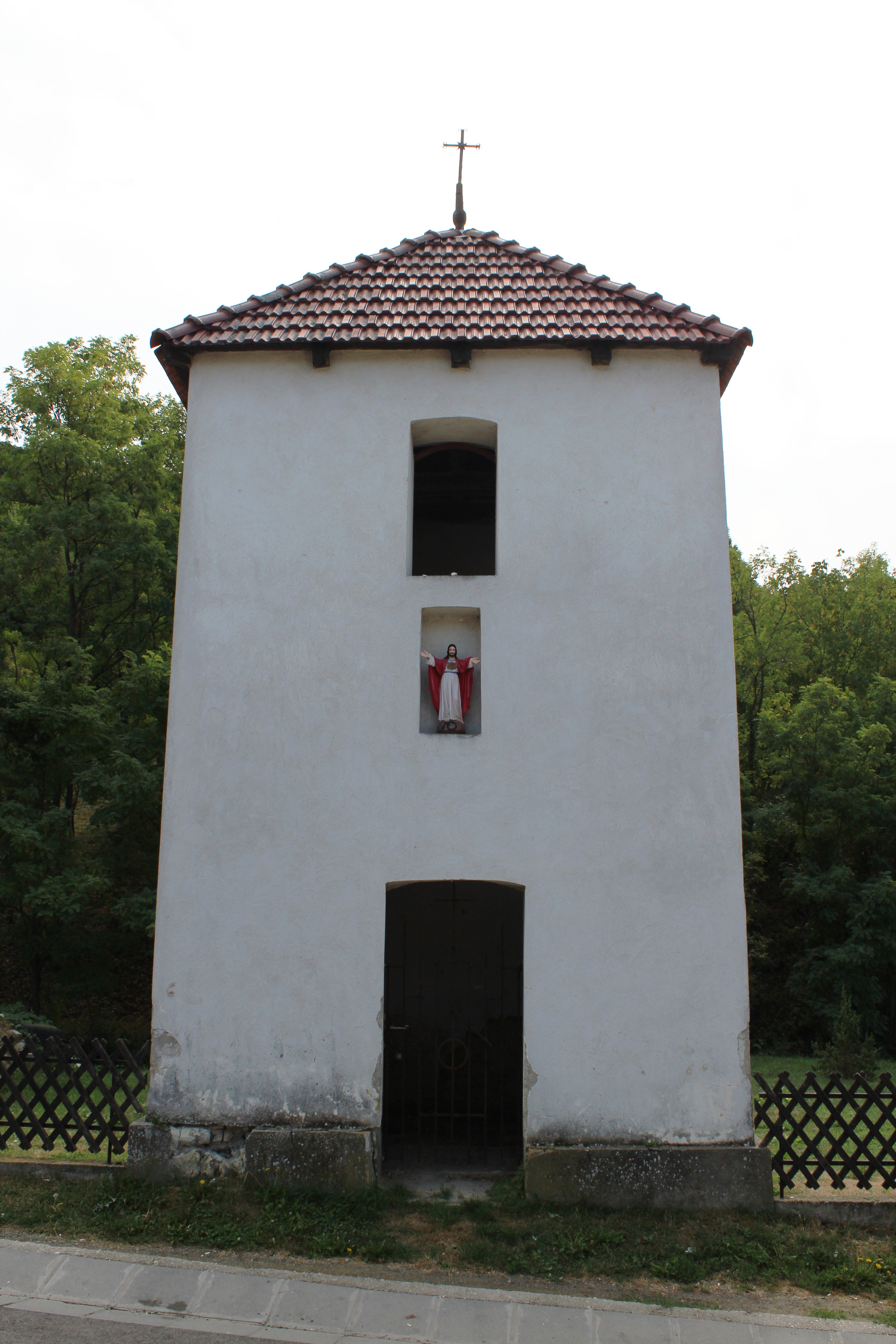 Bell tower in Márkháza, Hungary